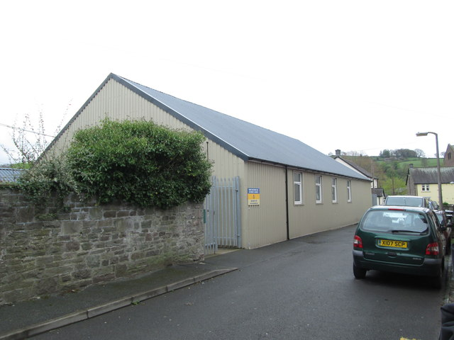 Gwent & Powys ACF - Conway Street